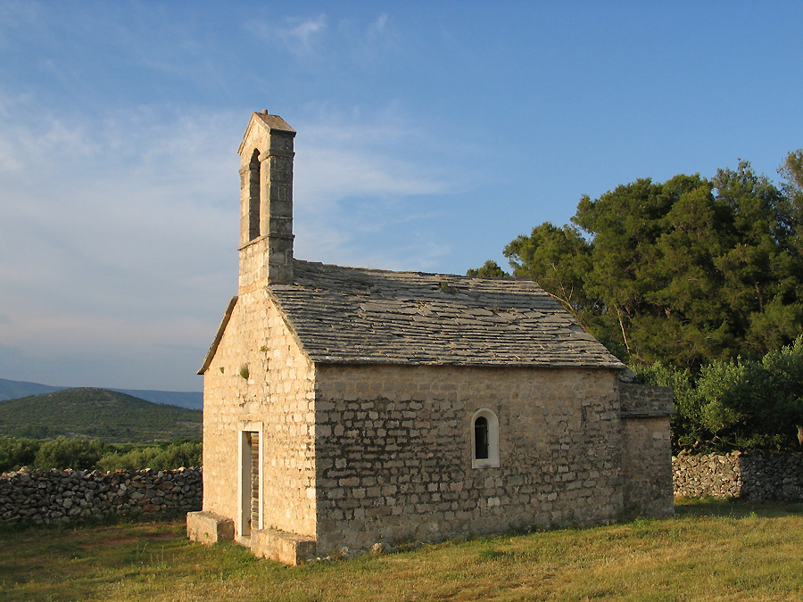 Chapel of Sts Cosmas and Damian near village Vrbanj on island Hvar.